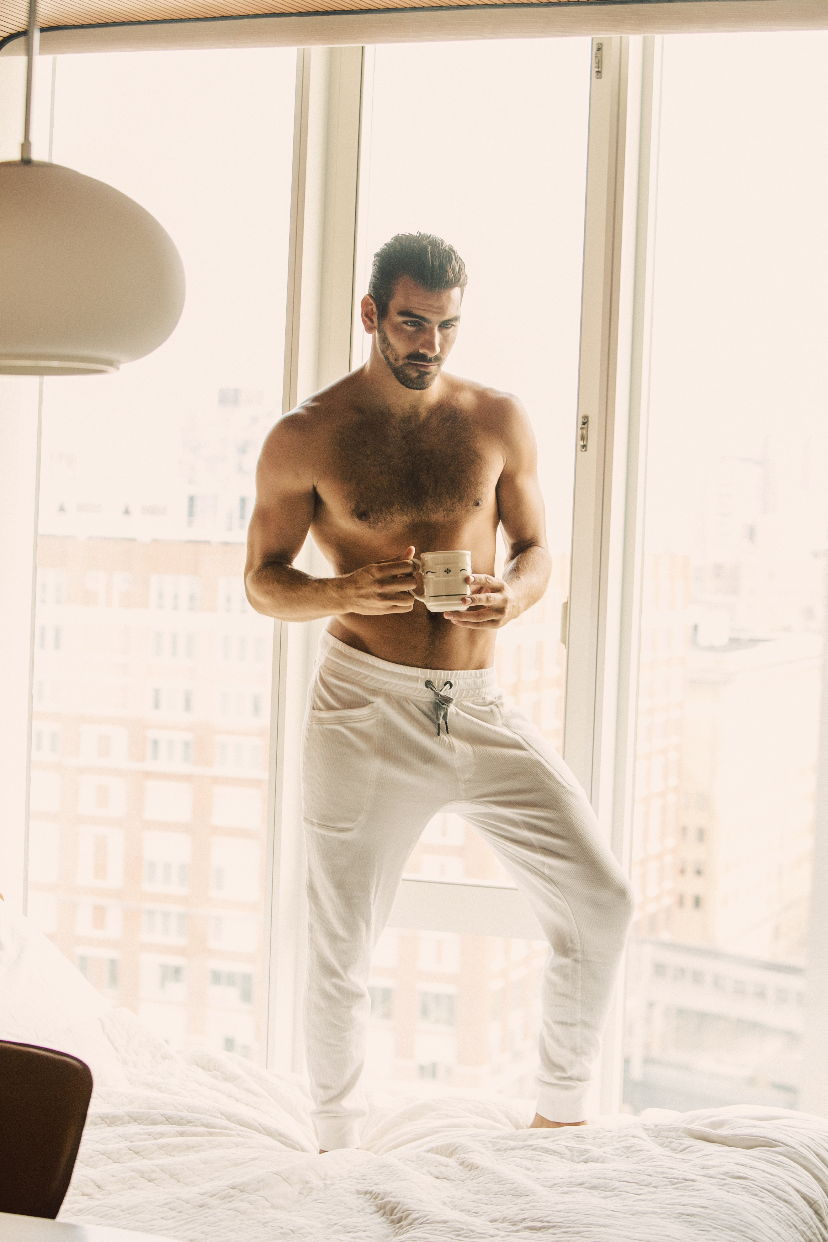 Nyle DiMarco - winner of America's Next Top Model final season